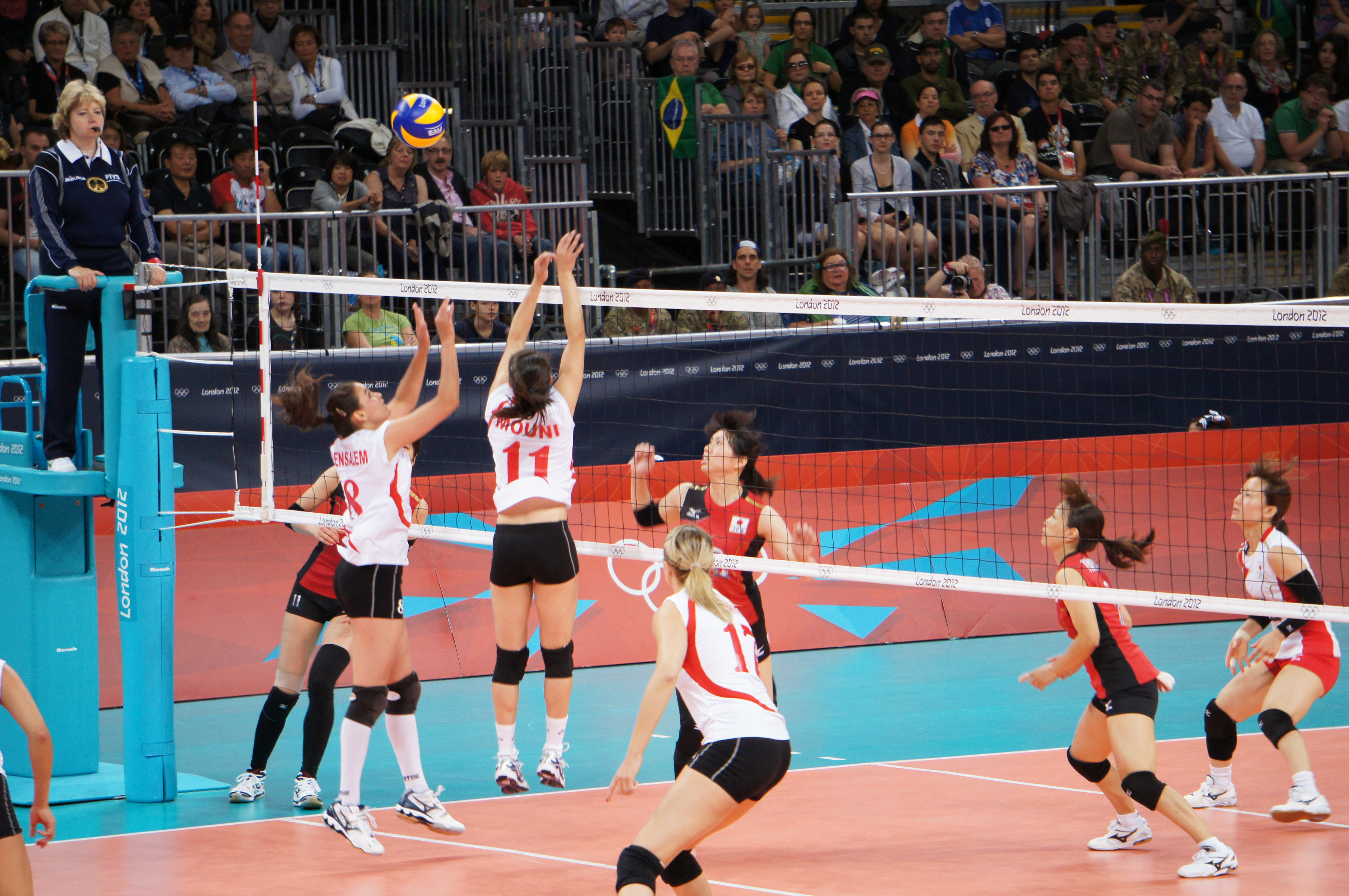 Algeria and Japan women's national volleyball team at the 2012 Summer Olympics